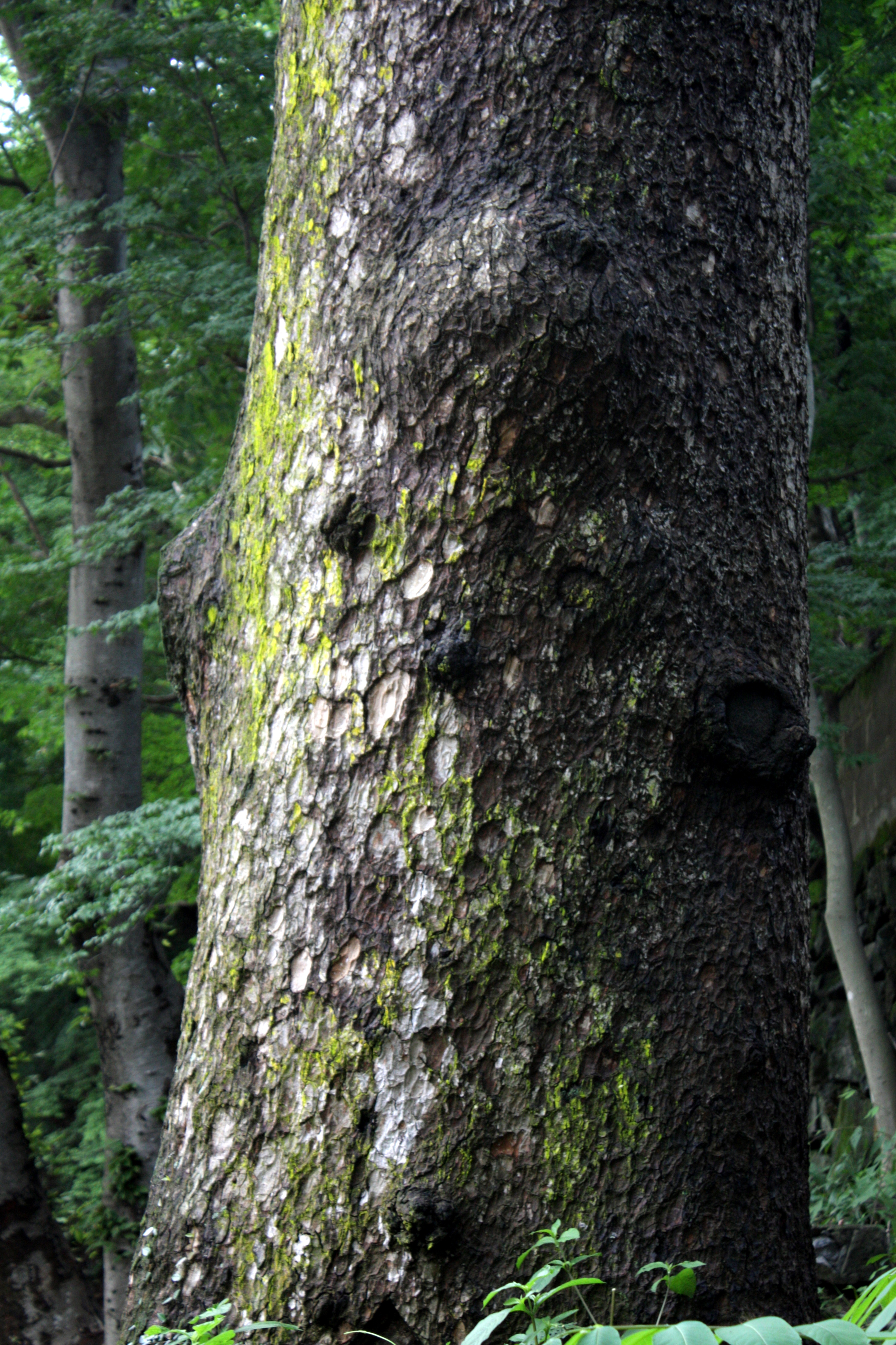 Abies holophylla's bark in Hwasun, Korea